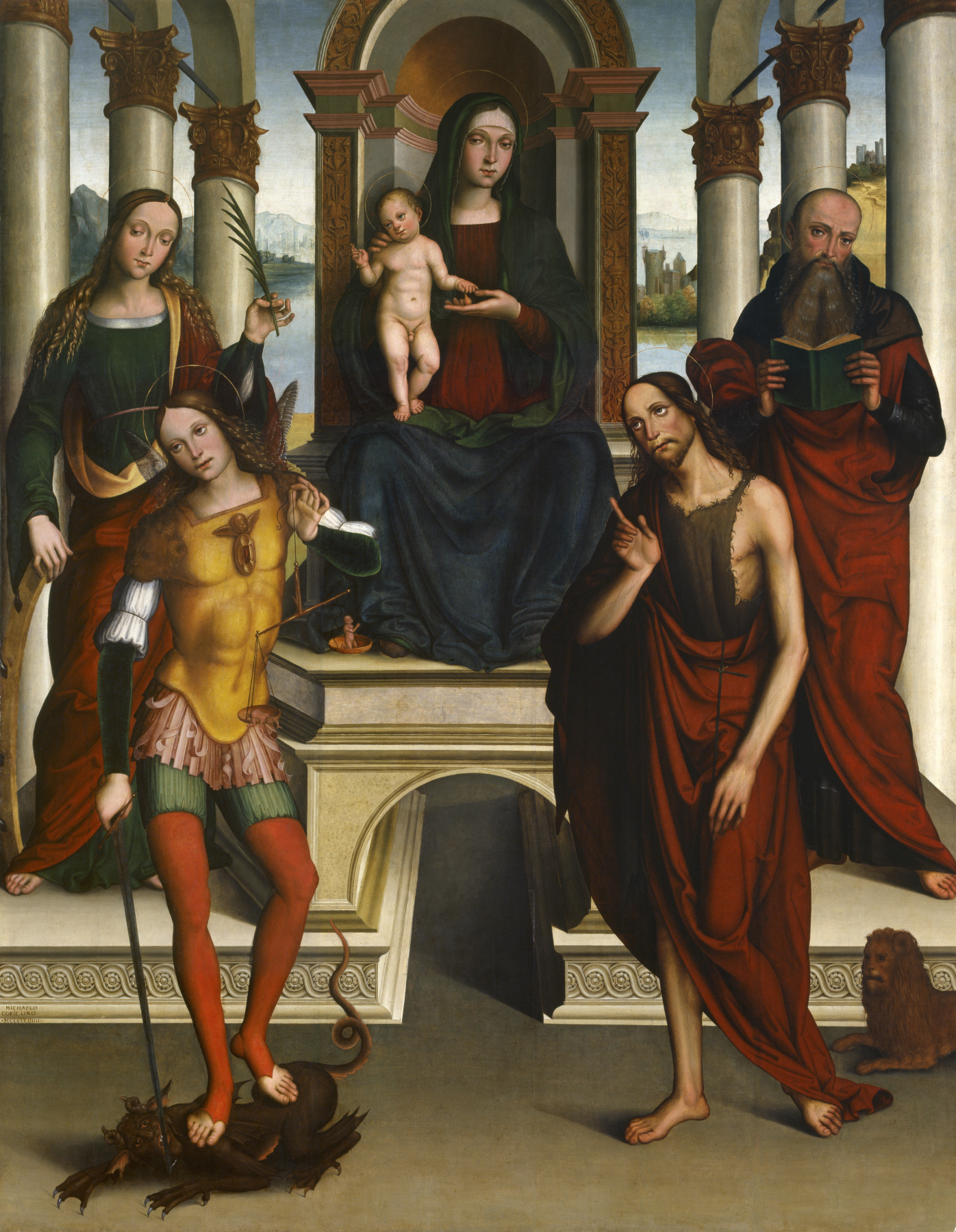 This monumental altarpiece, signed and dated by the artist in Latin below the Virgin's throne, was once in the now ruined church of Sant'Andrea in Ferrara. In front are Saint Michael, standing on a dragon and weighing human souls (as he will do it at the Last Judgment), and Saint John the Baptist. Behind these stand Saints Catherine of Alexandria and Jerome. Mary's role as a symbol of the Christian Church is emphasized by her placement at the center of a temple-like building that opens up to a beautiful landscape. The simple and harmonious style of the painting was a means of expressing devotion.